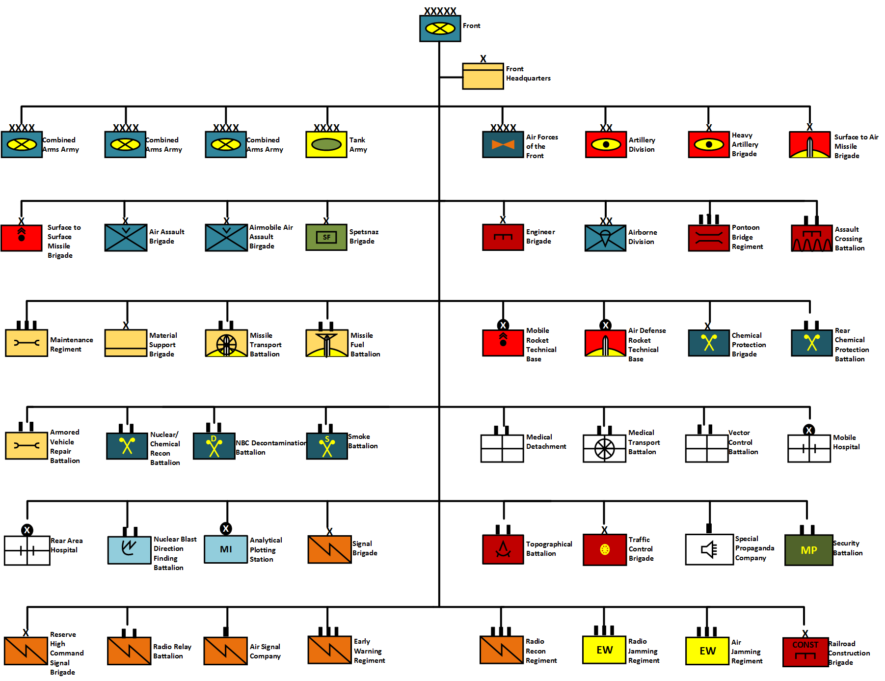 Soviet Front graphic converted to .png